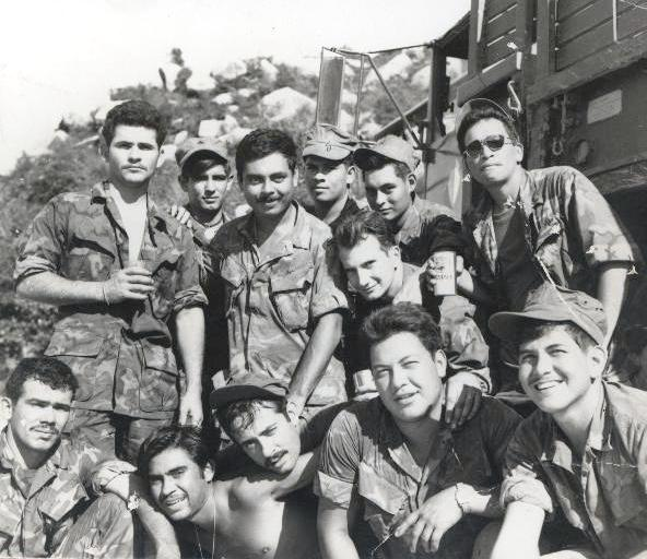 Marines of Mexican heritage pose in front of a building at Landing Zone Baldy during the Vietnam War. Pictured from left to right are, Red Garcia; Joe (a truck driver from Tucson); Chino; Tony "Tramp" Castillo; Jose; and Efrain Hinojosa. According to Red Garcia, company cook, Efrain Hinojosa, would look out for his buddies, occasionally providing them with extra helpings during meals. From the Red Garcia Collection (COLL/5065), Marine Corps Archives & Special Collections OFFICIAL USMC PHOTOGRAPH